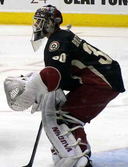 Phoenix Coyotes goaltender Ilya Bryzgalov in a game against the Vancouver Canucks in 2009.